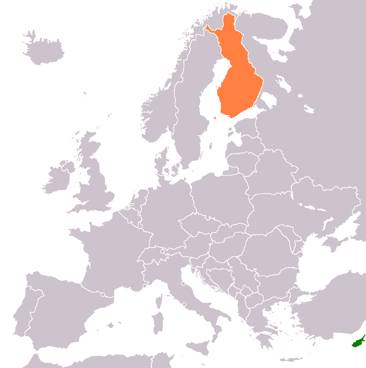 Cyprus-Finland locator map.